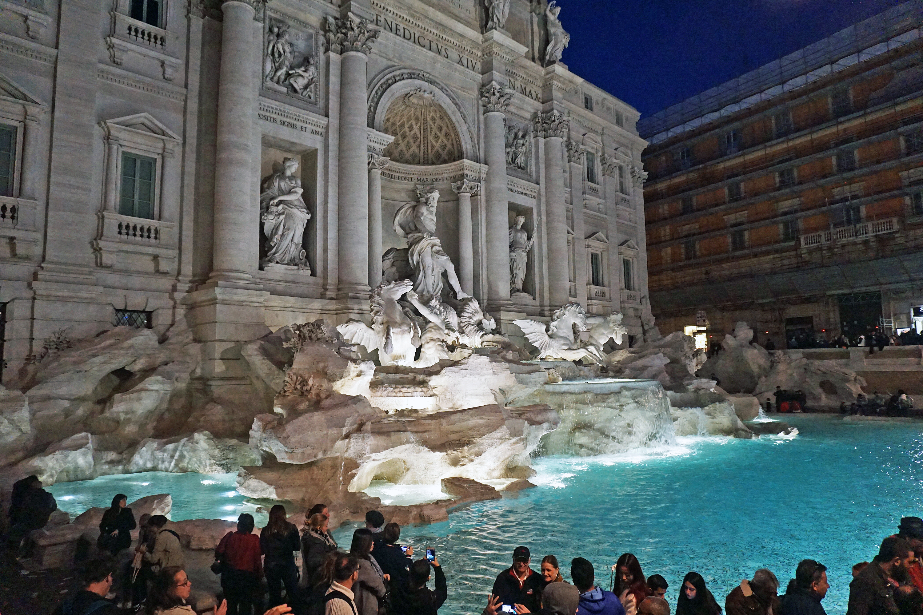 Fontana di Trevi at night, Rome.